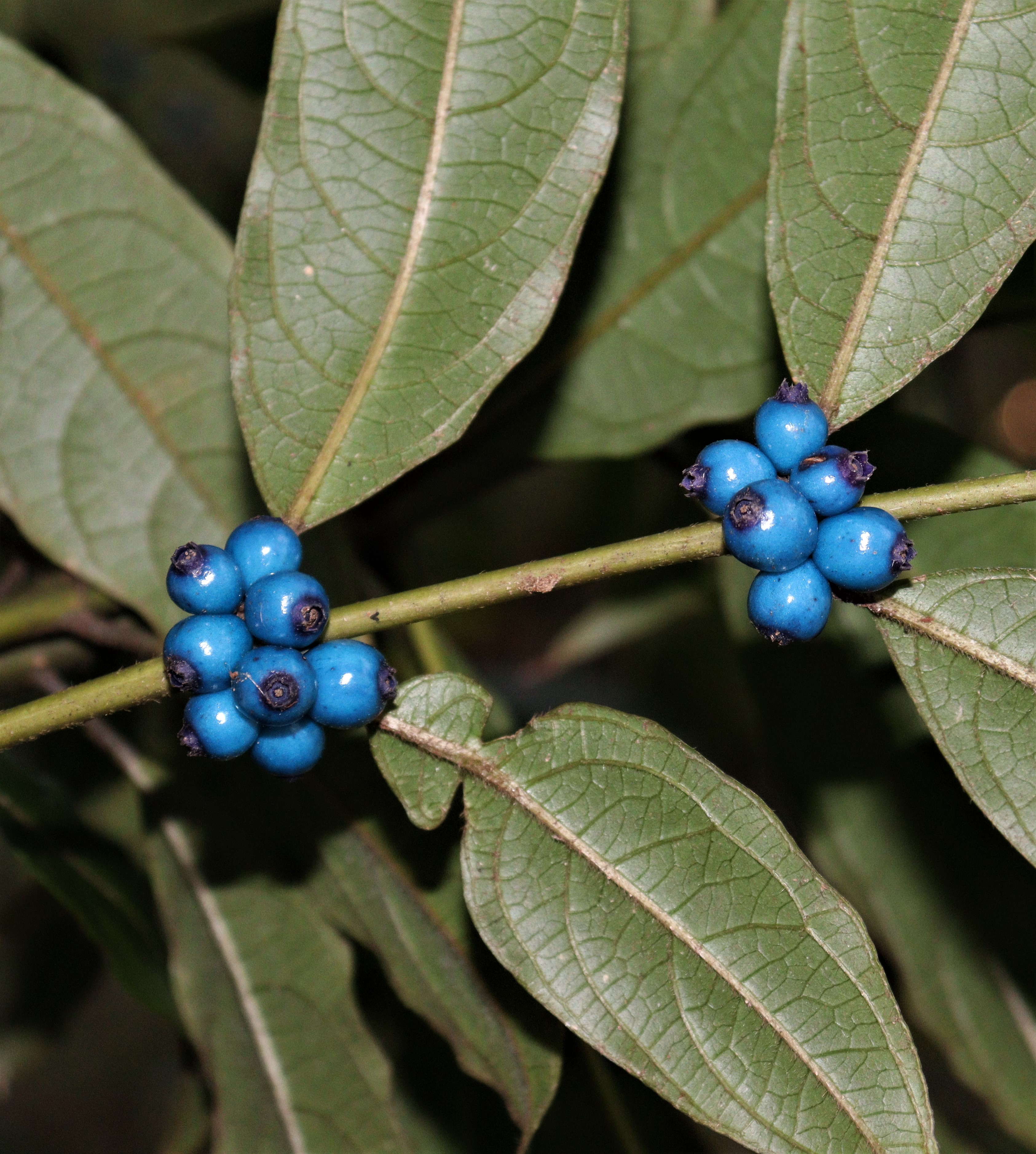 Lasianthus japonicus in Mount Tengura, Kihoku, Mie Prefecture, Japan.